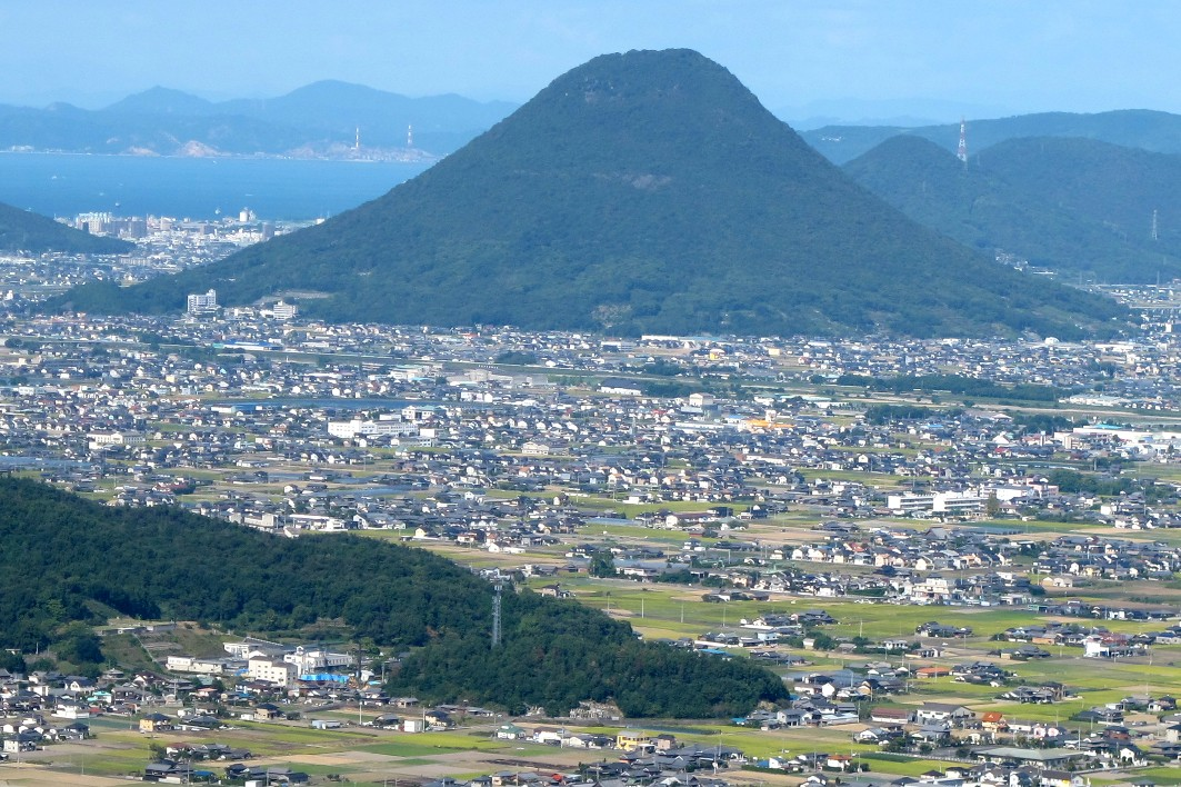 IInoyama in Kagawa Prefecture